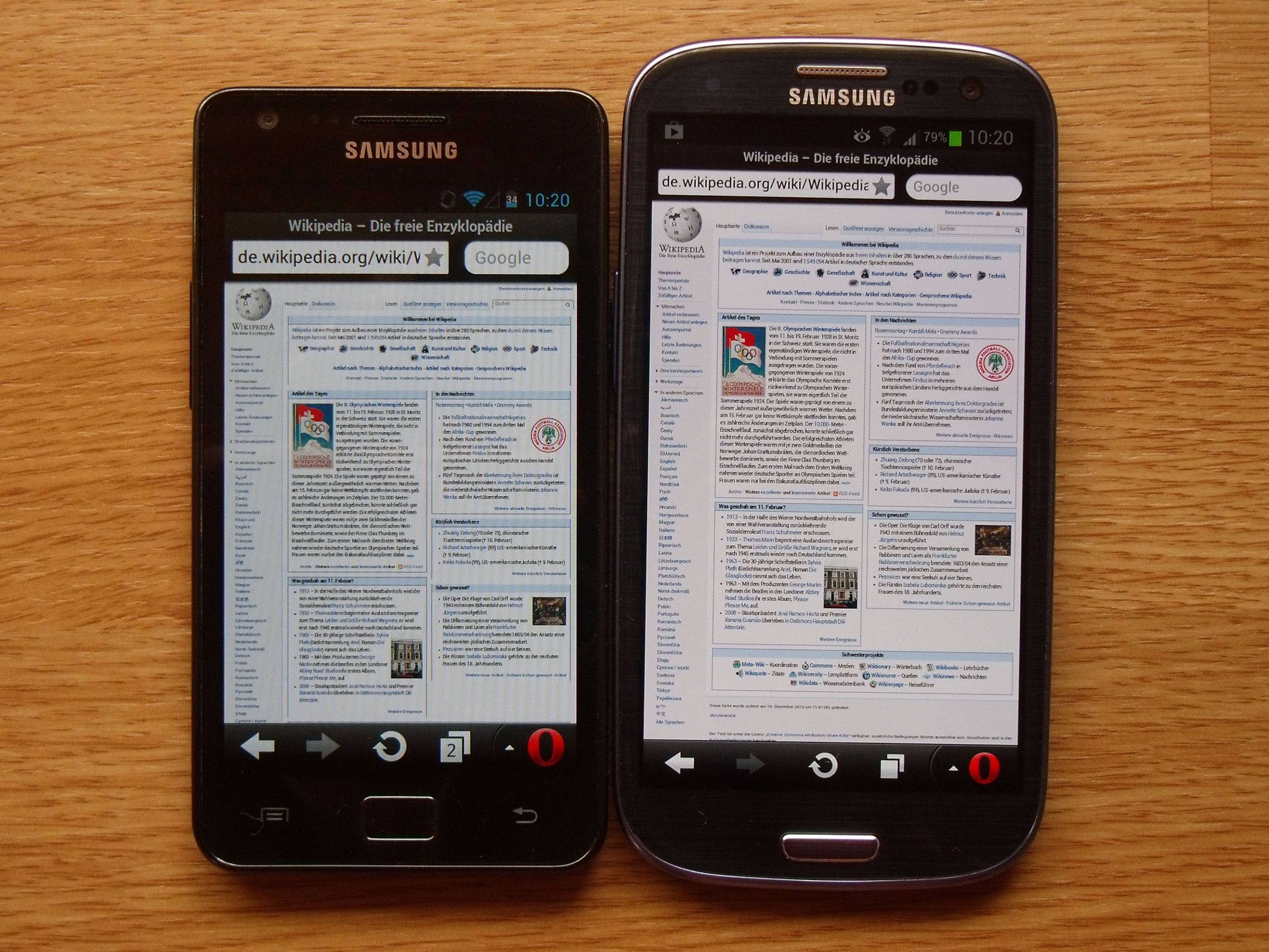 Comparison of the smartphones Samsung Galaxy S II and Galaxy S III. Both mobiles are equipped with AMOLED screens and they show the German wikipedia. (The Galaxy S2 is equipped with a custom ROM, so it doesn't have the typical user interface known by Samsung.)